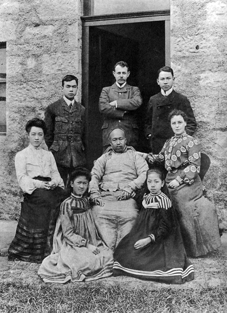 "Group picture probably taken when K’ang [Yu-wei, at center] was in the United States in 1907. His second daughter, K’ang T’ung-pi, then a student at Barnard College, is seated on K’ang's right. Behind her is Lo Chong, then studying at Oxford University."